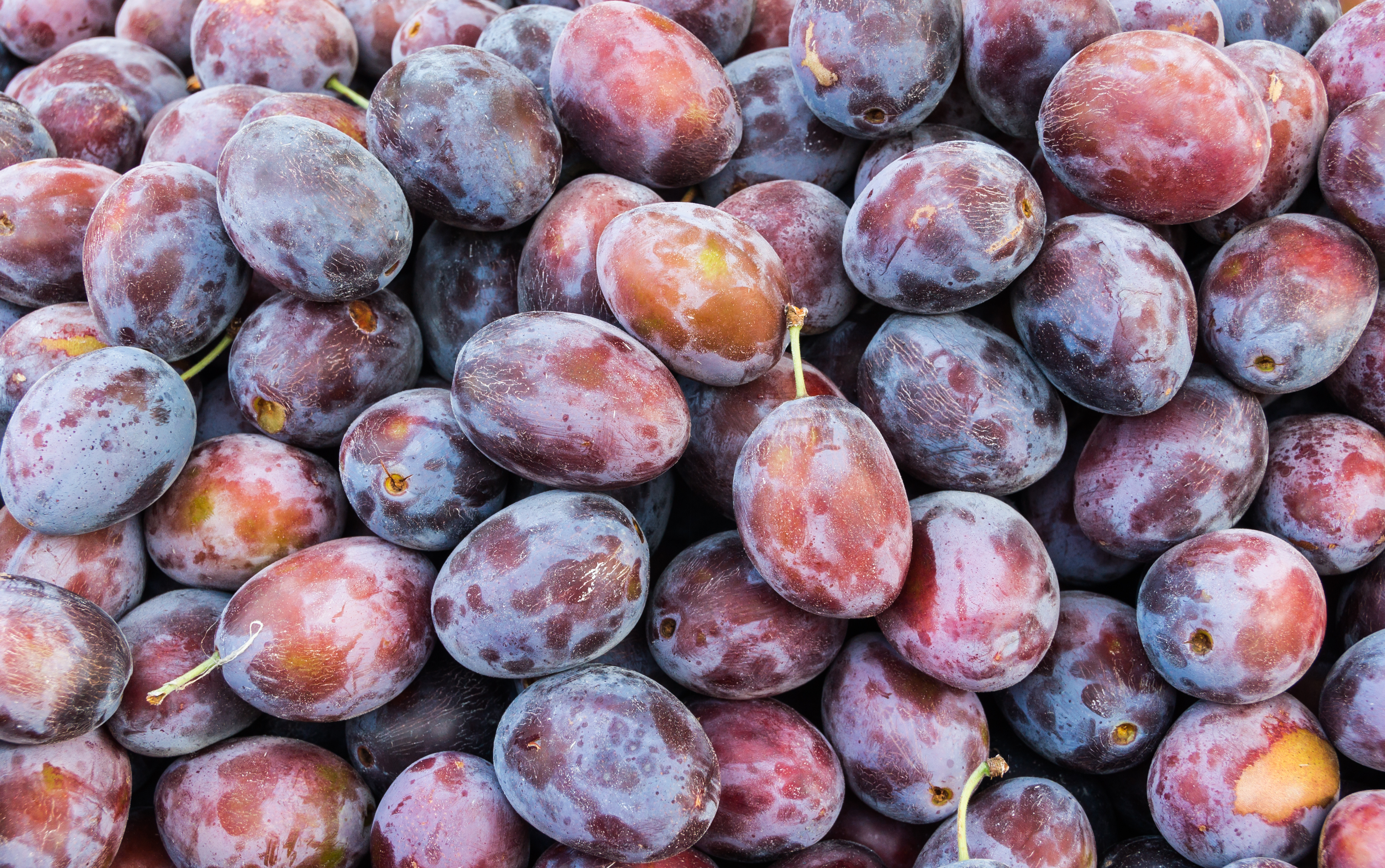 Damsons in october, Viktualienmarkt, Munich, Bavaria, Germany